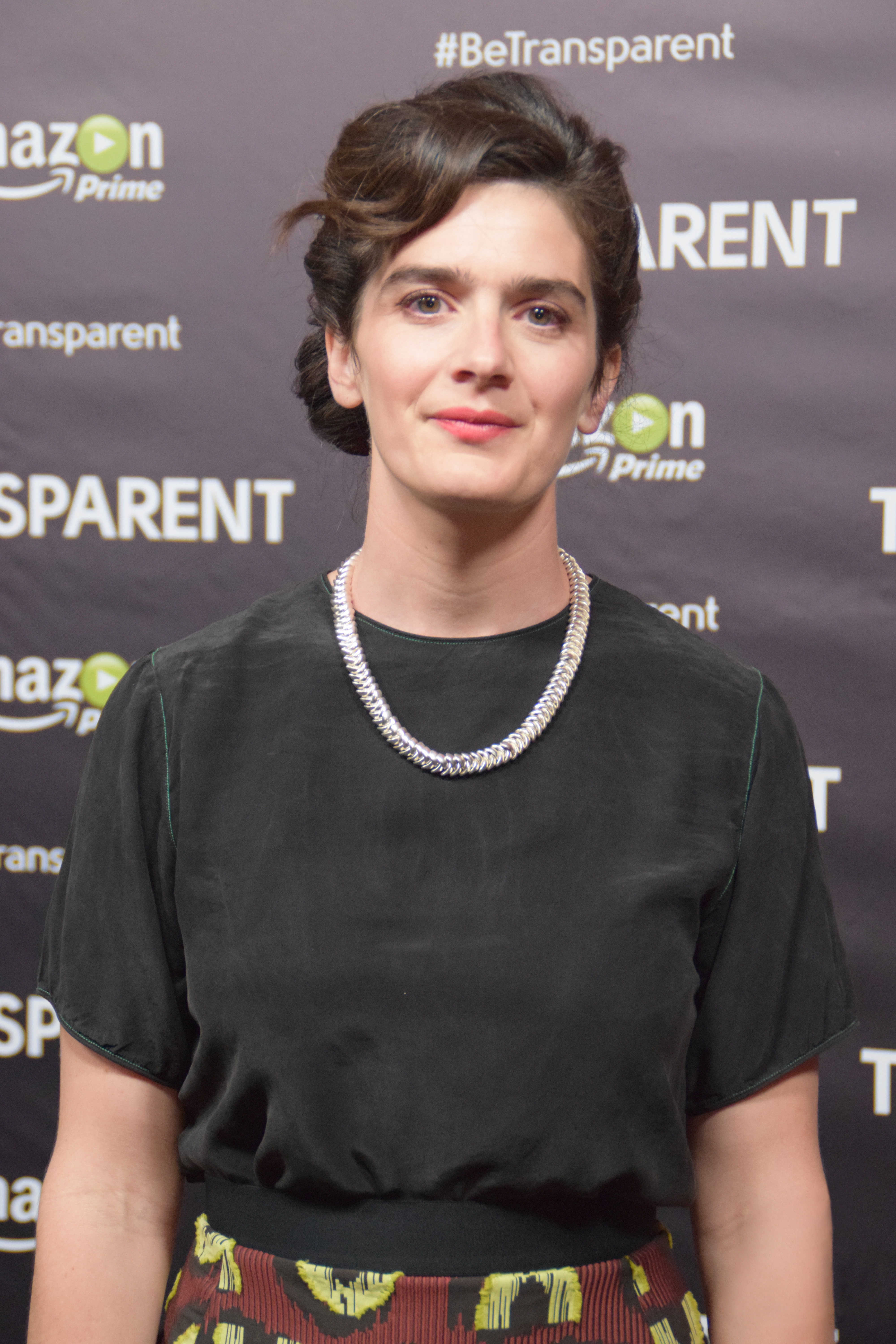 Actress Gaby Hoffmann at the Amazon Transparent FYC Event Screening